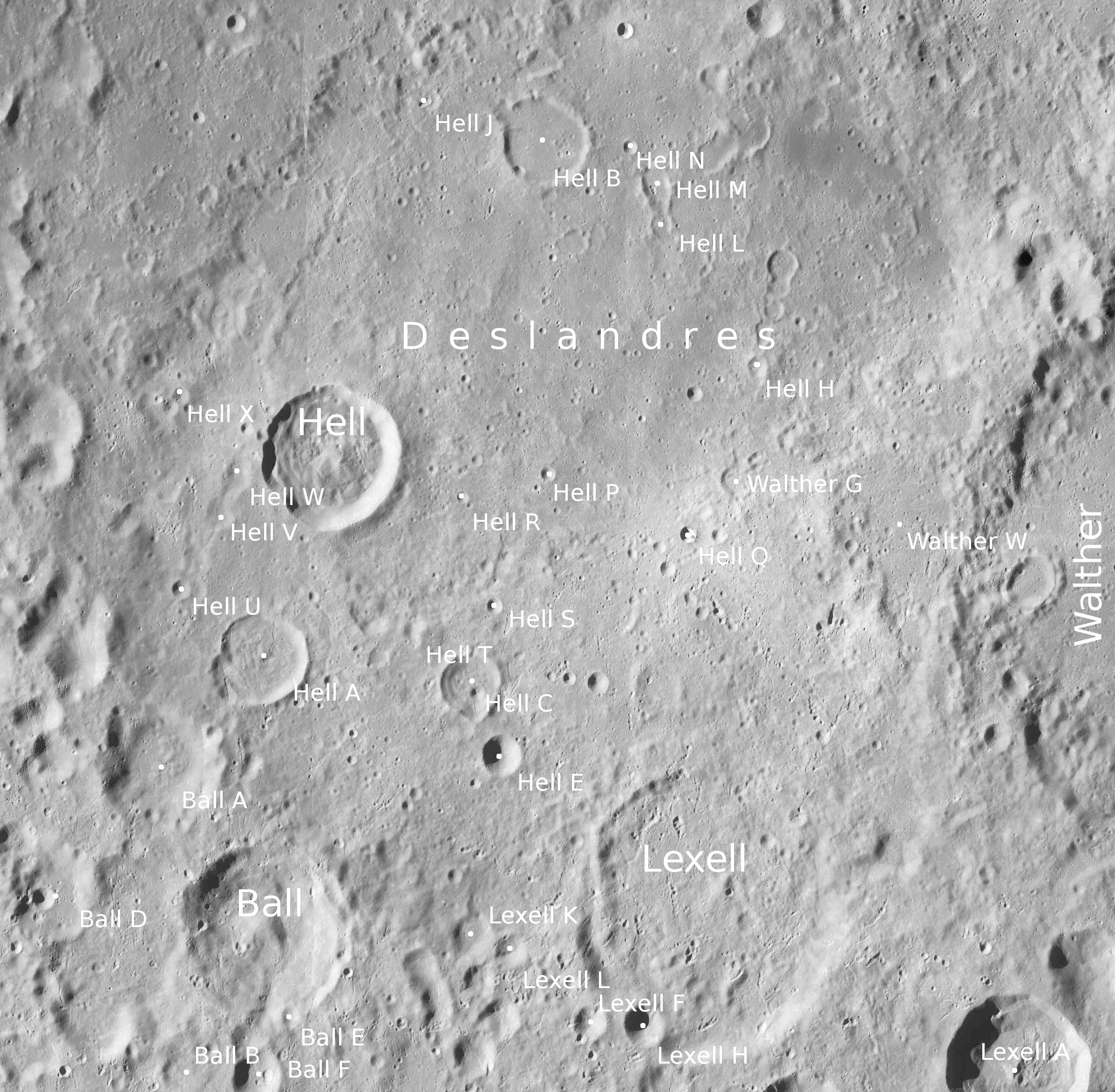 Craters Deslandres, Hell, Ball and Lexell (detail of LRO - WAC global moon mosaic; Mercator projection)